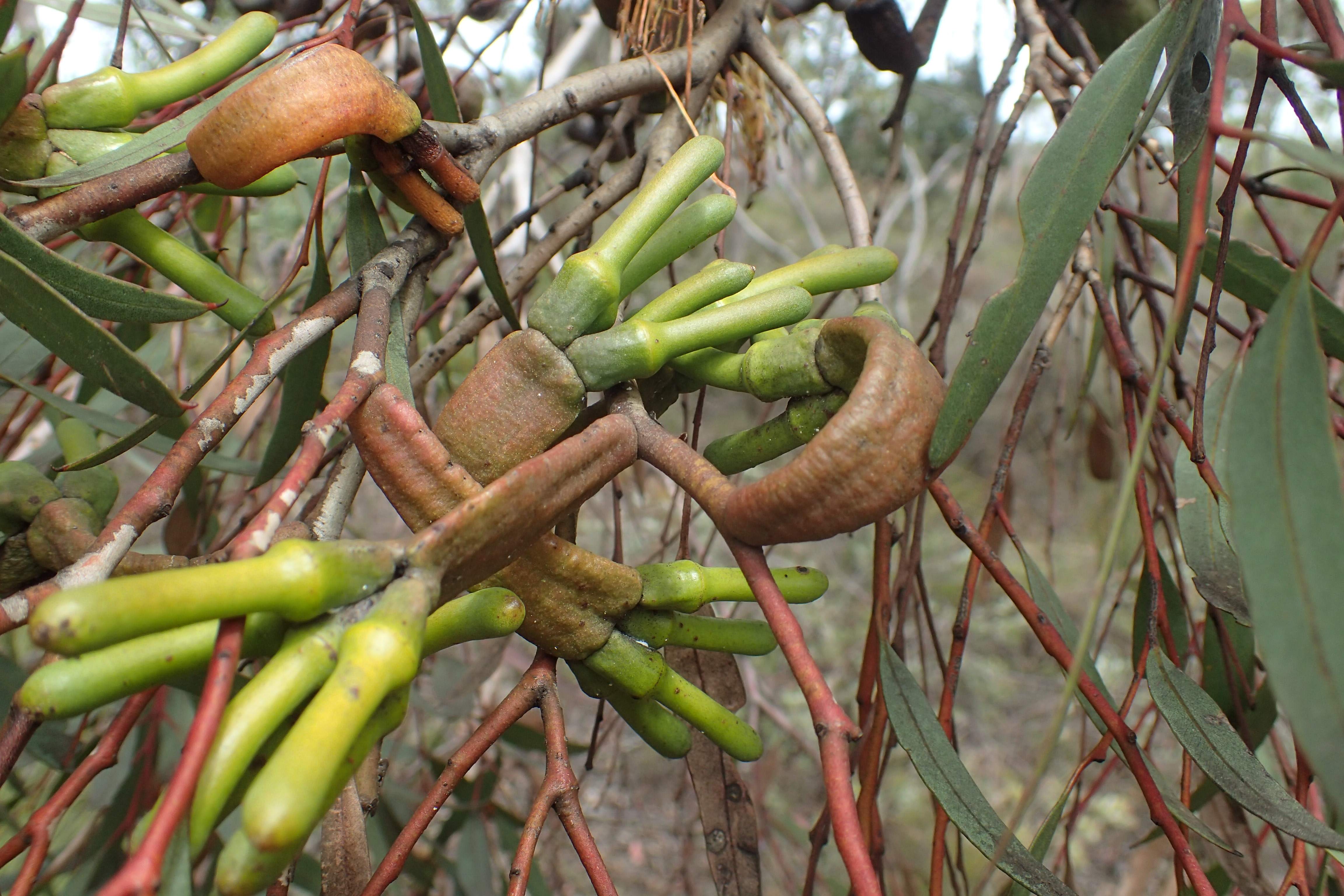 Flower buds of Eucalyptus burdettiana in Helms Arboretum, North of Esperance, W.A.